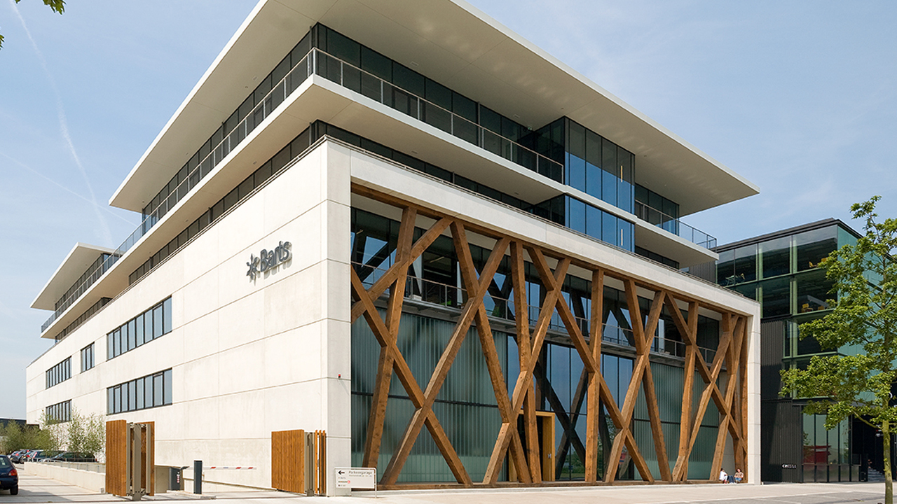 Barts head office in Amsterdam